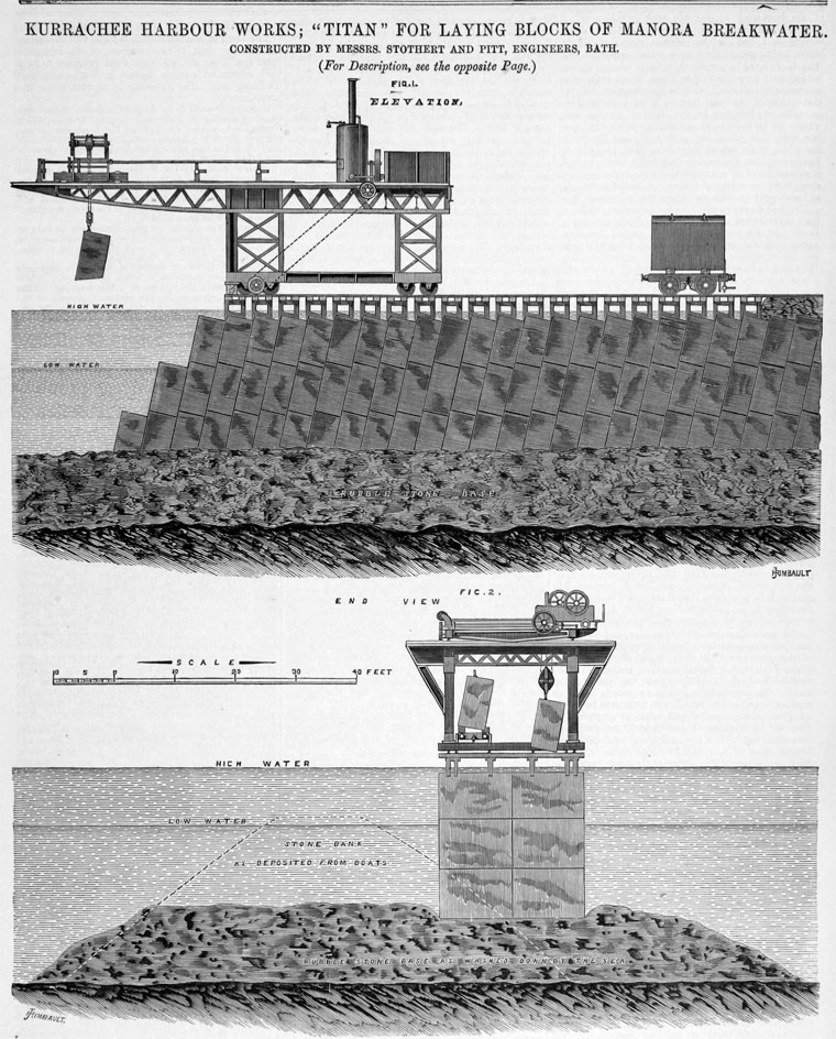 Stothert & Pitt 'Titan' block-setting crane for building a breakwater at Manora